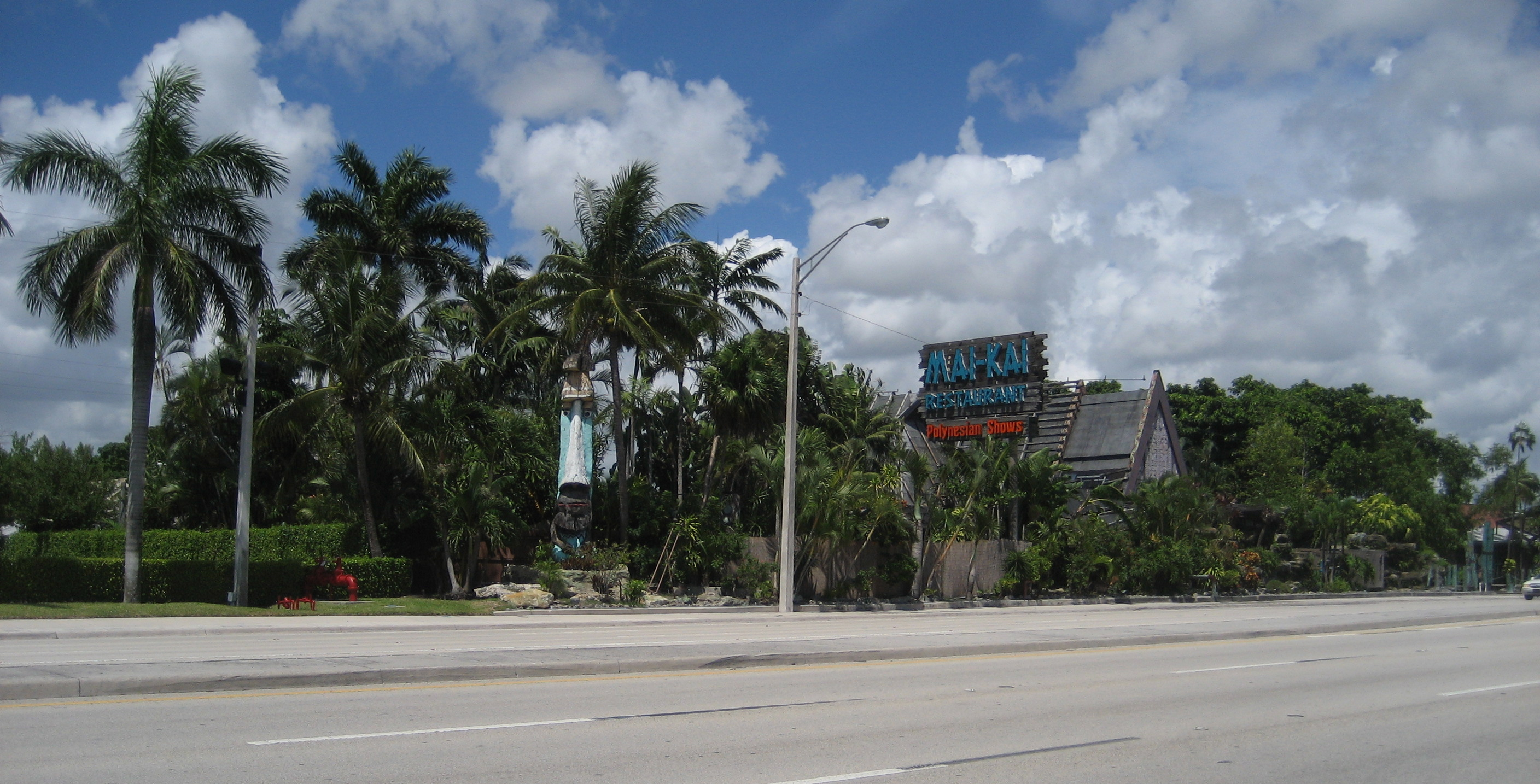 Fort Lauderdale, Florida. "Mai-Kai" Restaurant, a local landmark and one of the few remaining classic "Tiki" restaurants of the mid-20th century.